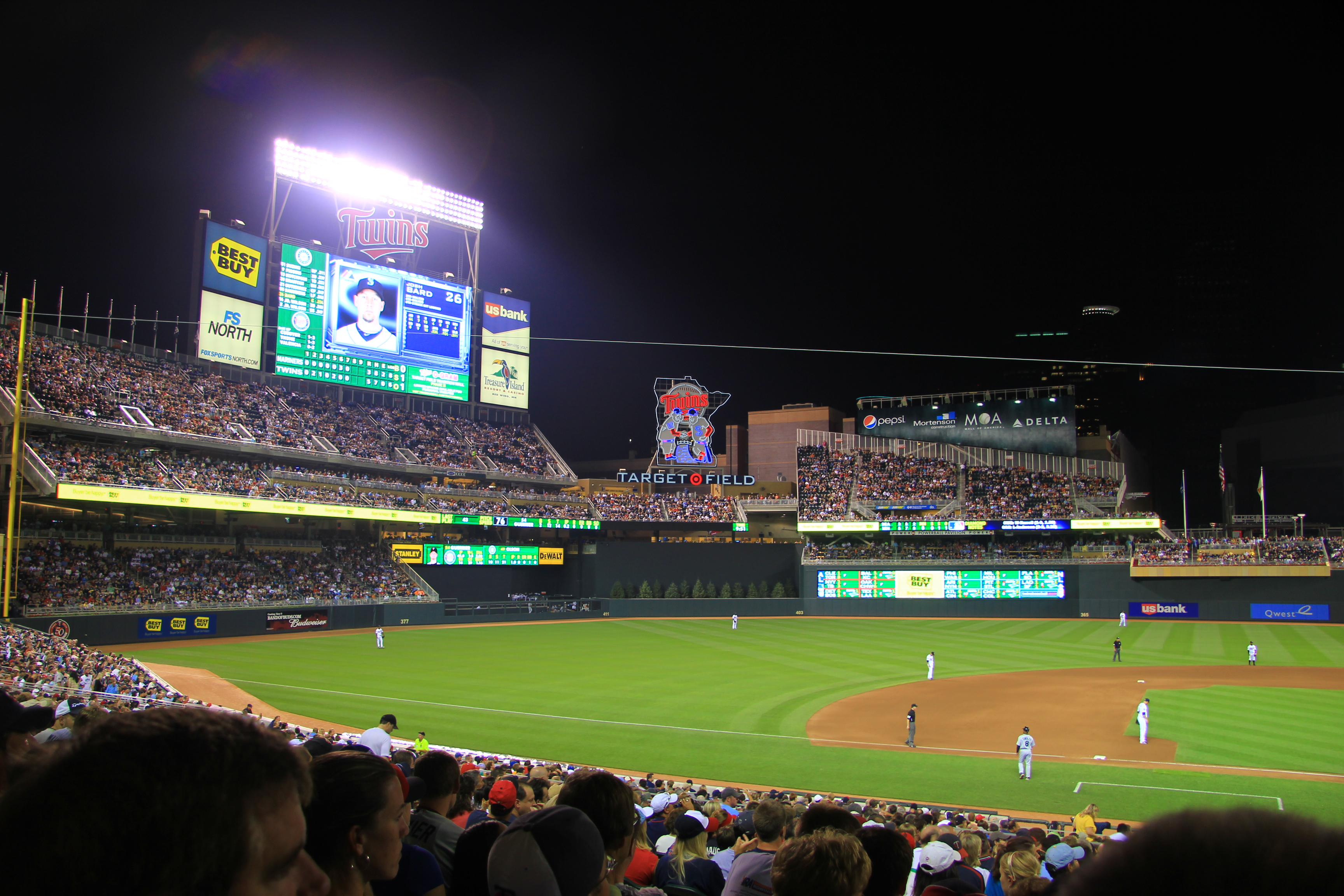 Minnesota Twins vs. Seattle Mariners at Target Field in Minneapolis